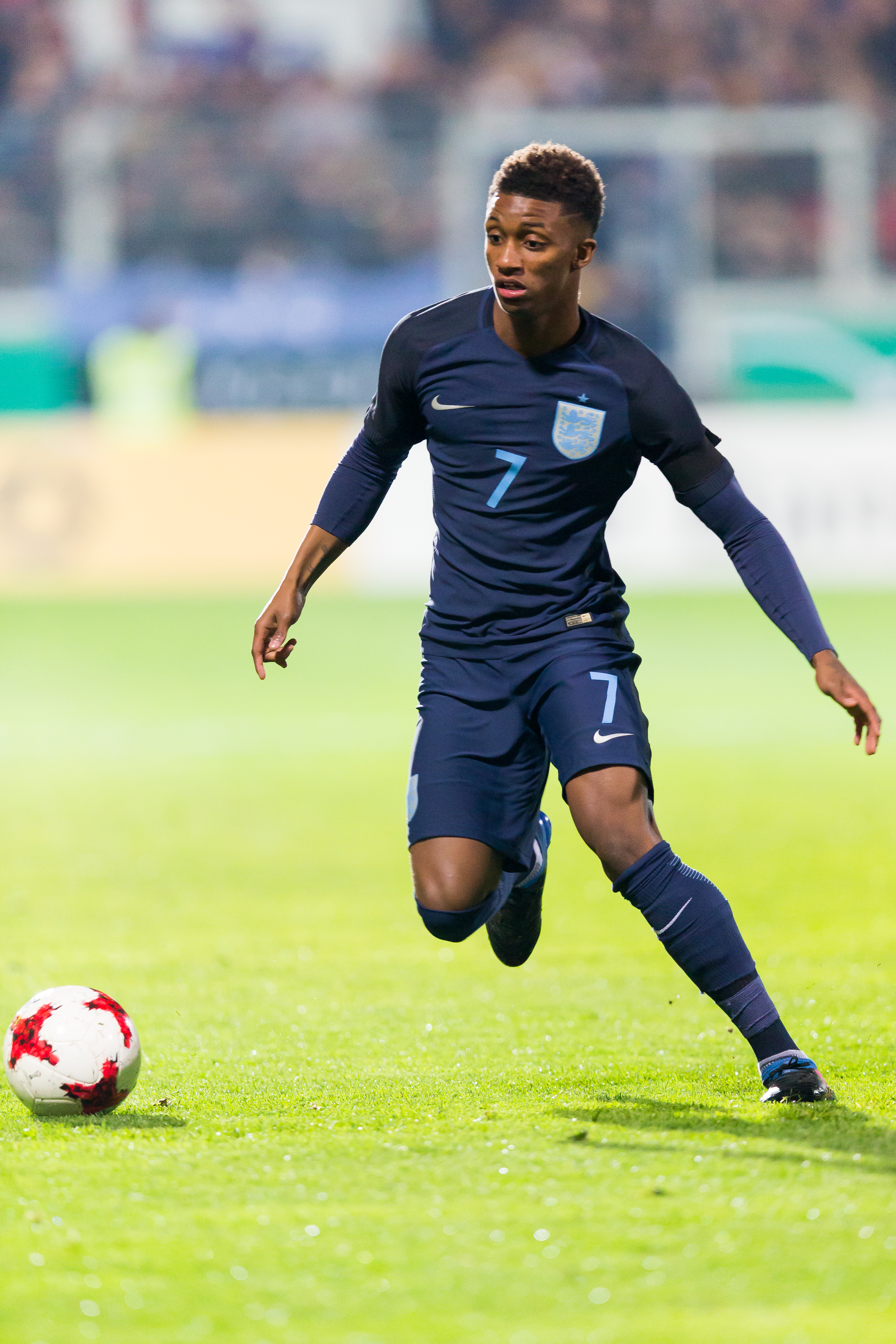 Football U21 Germany vs England (1:0) Team Germany 12 Julian Pollersbeck (1. FC Kaiserslautern) 1 Marvin Schwäbe (Dynamo Dresden) 23 Odisseas Vlachodimos (Panathinaikos Athen) 16 Kevin Akpoguma (Fortuna Düsseldorf) 3 Yannick Gerhardt (VfL Wolfsburg) 5 Matthias Ginter (Borussia Dortmund) 22 Benjamin Henrichs (Bayer 04 Leverkusen) 15 Marc-Oliver Kempf (SC Freiburg) 4 Niklas Stark (Hertha BSC) 13 Jeremy Toljan (1899 Hoffenheim) 2 Mitchell Weiser (Hertha BSC) 18 Nadiem Amiri (1899 Hoffenheim) 10 Maximilian Arnold (VfL Wolfsburg) 25 Hany Mukhtar (Brøndby IF) 7 Max Meyer (FC Schalke 04) 19 Janik Haberer (SC Freiburg) 21 Gideon Jung (Hamburger SV) 20 Levin Öztunali (1. FSV Mainz 05) 17 Maximilian Philipp (SC Freiburg) 9 Davie Selke (RB Leipzig) 27 Thilo Kehrer (FC Schalke 04) Team England 1 Jordan Pickford (Sunderland) 2 Mason Holgate (Everton) 13 Angus Gunn (Manchester City) 21 Christian Walton (Brighton) 16 Kortney Hause (Wolverhampton) 5 Jack Stephens (Southampton) 15 Rob Holding (Arsenal) 12 Joe Gomez (Liverpool) 3 Ben Chilwell (Leicester City) 6 Alfie Mawson (Swansea City) 22 Sam McQueen (Southampton) 4 Nathaniel Chalobah (Chelsea) 14 Will Hughes (Derby County) 20 Ruben Loftus-Cheek (Chelsea) 10 Lewis Baker (Vitesse Arnheim) 18 John Swift (Reading) 23 Jack Grealish (Aston Villa) 8 Harry Winks (Hotspur) 19 Cauley Woodrow (Fulham) 9 Tammy Abraham (Bristol City) 17 Solly March (Brighton) 11 Jacob Murphy (Norwich) during Fussball U21 Deutschland vs England at Brita-Arena, Wiesbaden, Hessen, Germany on 2017-03-24, Photo: Sven Mandel